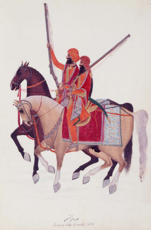 Bodyguard of Ranjit Singh, inscribed in Persian, 'Sawardan i khass'; in English 'Lahore Life Guards 1838'. Pencil and watercolour, 1838-39